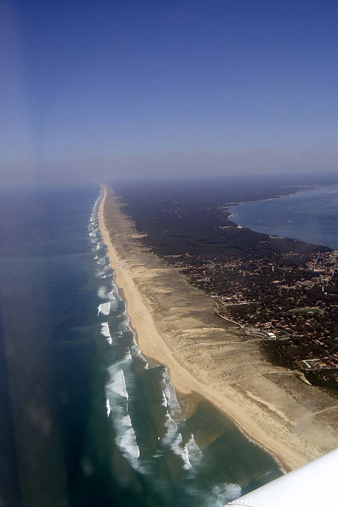 The Landes Forest Coast with its 100 mile beach. Taken over the "Cap Ferret"